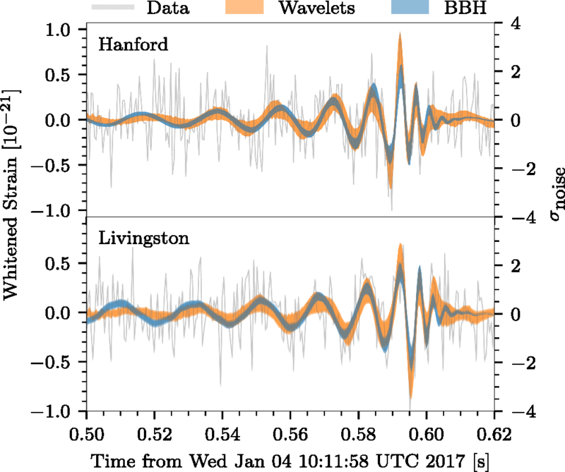 "Time-domain detector data (gray), and 90% confidence intervals for waveforms reconstructed from the morphology-independent wavelet analysis (orange) and binary black hole (BBH) models from both waveform families (blue), whitened by each instrument’s noise amplitude spectral density. The left ordinate axes are normalized such that the amplitude of the whitened data and the physical strain are equal at 200 Hz. The right ordinate axes are in units of noise standard deviations. The width of the BBH region is dominated by the uncertainty in the astrophysical parameters."